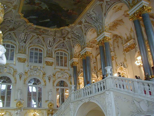 Interior of the Hermitage